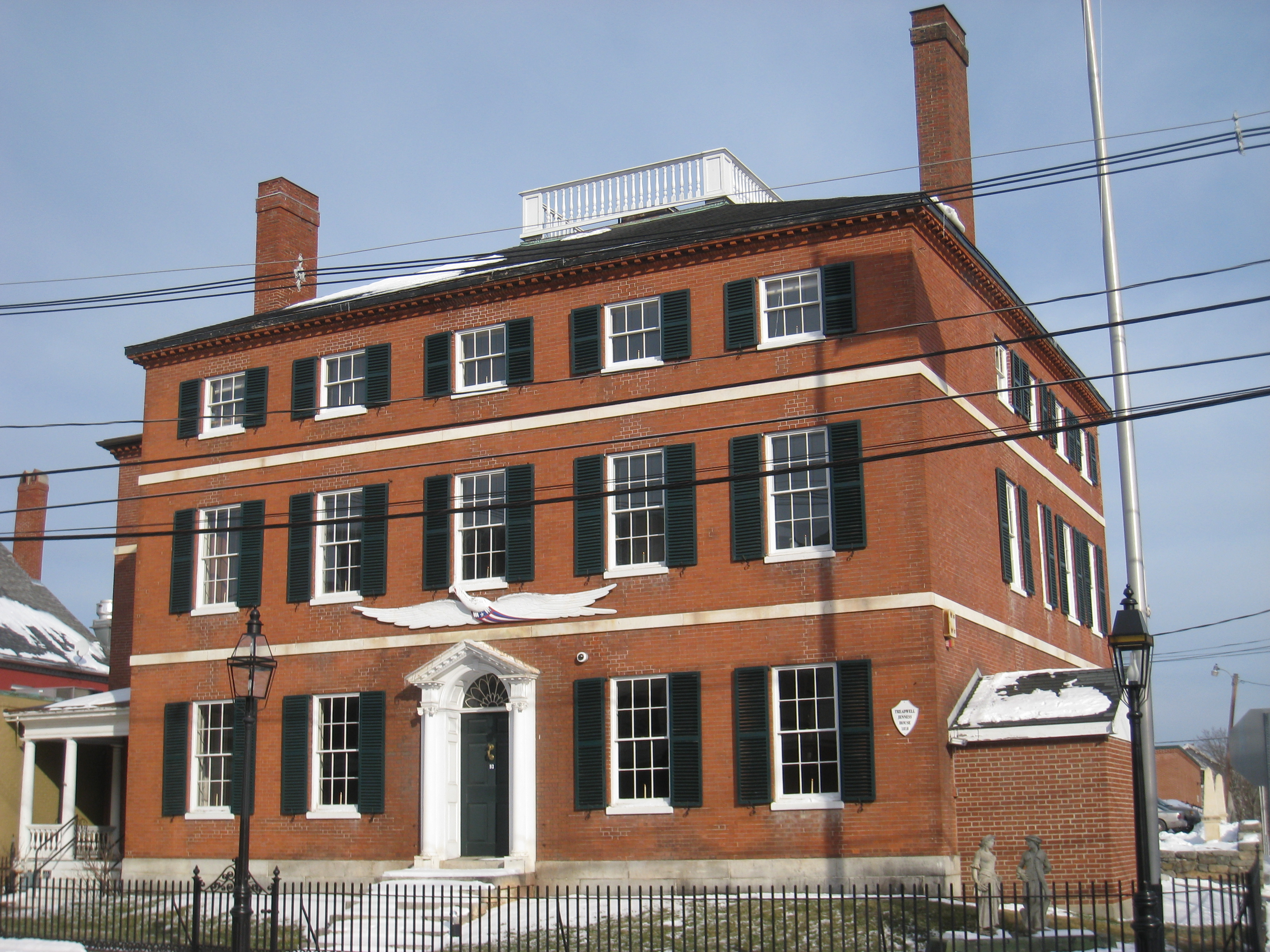 Treadwell Jenness House in Portsmouth, New Hampshire, USA. I took this photograph.